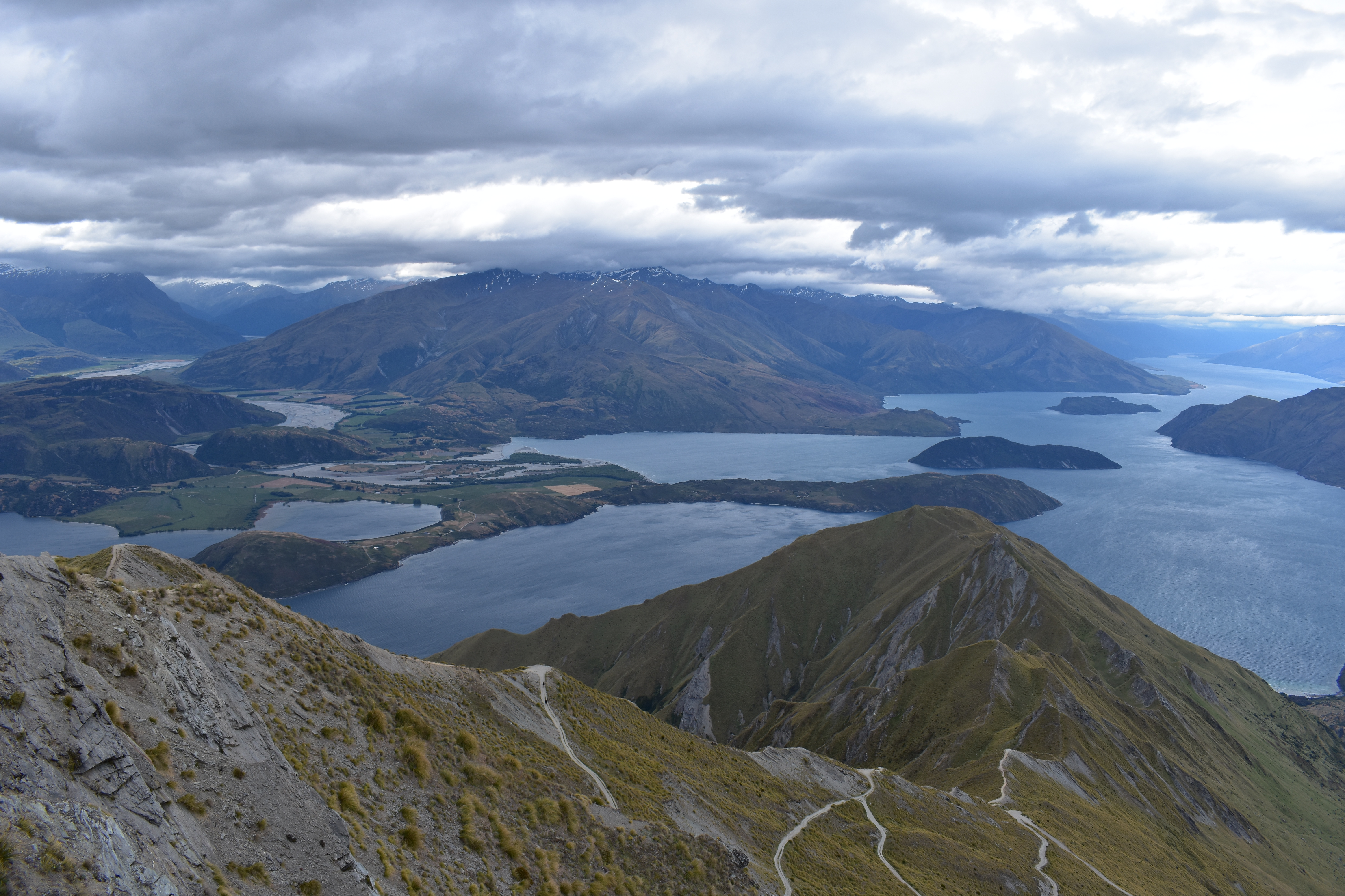 view from the Roy's peak 3